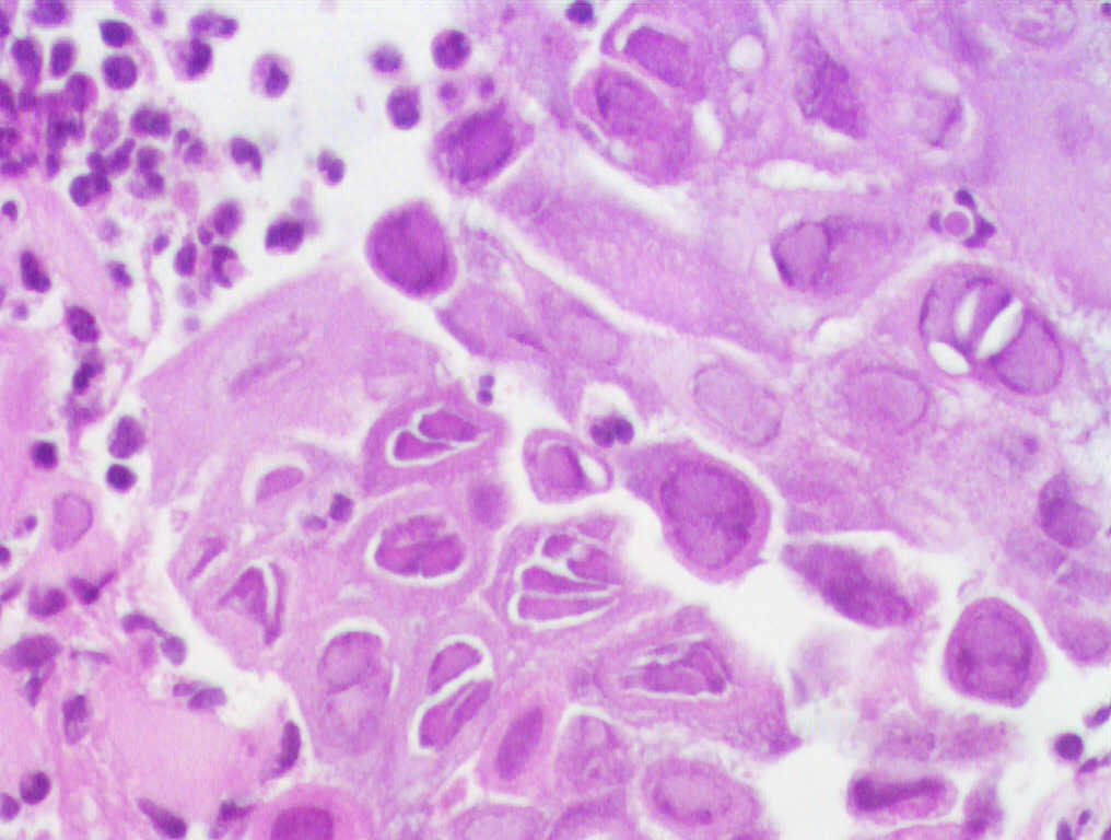 Esophagus, endoscopic biopsy. Cytopatic affect on a group of squamous epithelial cells embedded into exudate (morphologically suggestive for Herpes virus). H&E 400x